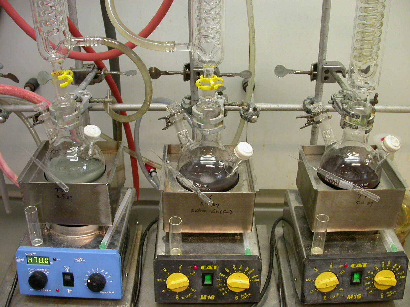 Simmons-Smith carbene addition in progress; synthesis of tricyclo[4.4.1.01,6]undeca-3,8-diene from isotetralin.